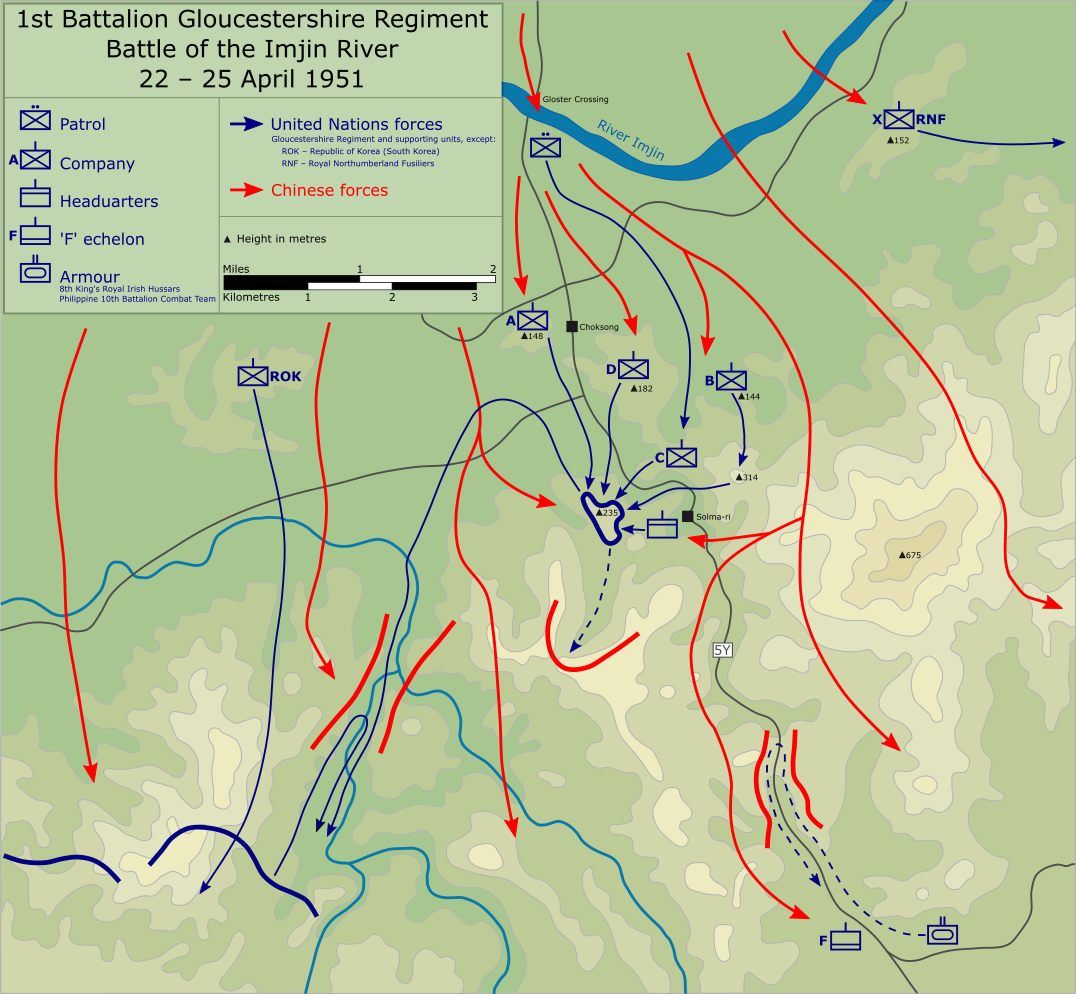 The Gloucestershire Regiment at the Battle of the Imjin River, 22-25 April 1951.